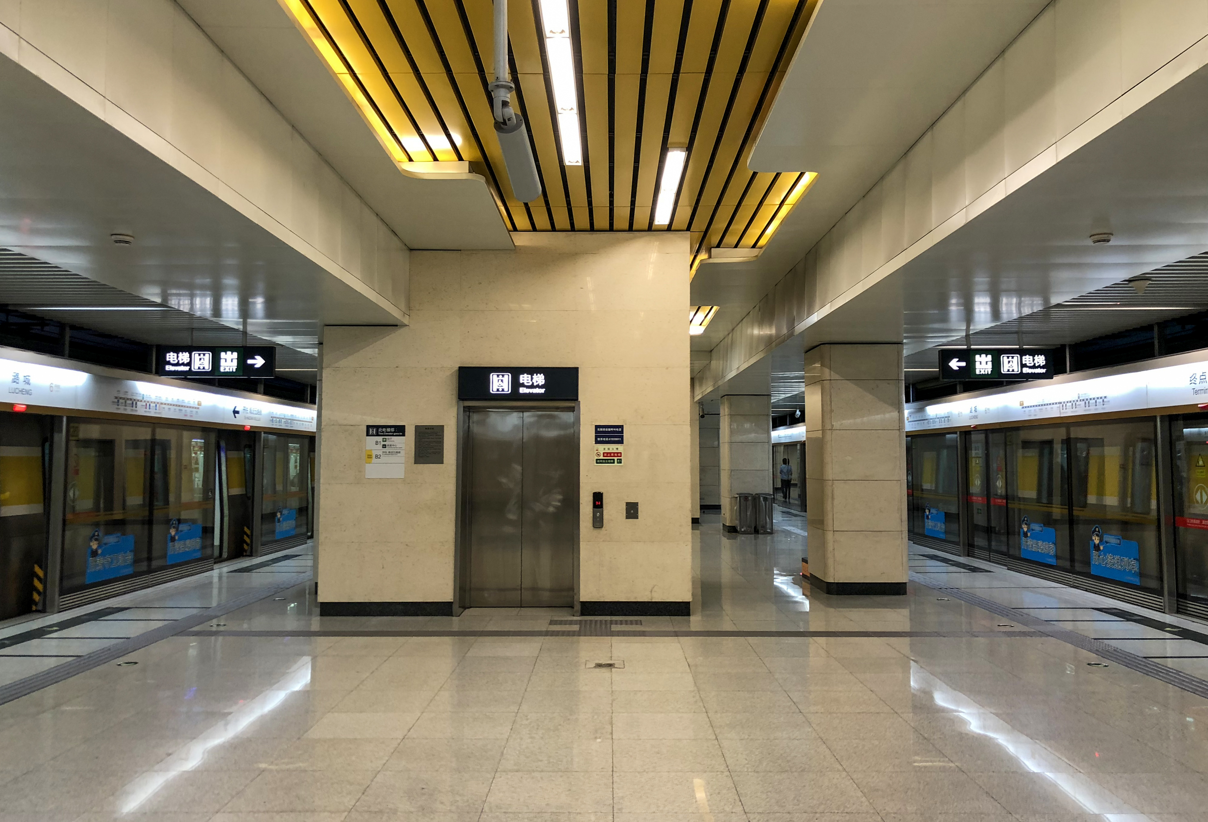 Yellow River themed station - yet there's a namesake station nearer to the Yellow River, that's Lucheng Railway Station in Lucheng, Changzhi, Shanxi, although the Yellow River doesn't actually cross the territories of Changzhi.